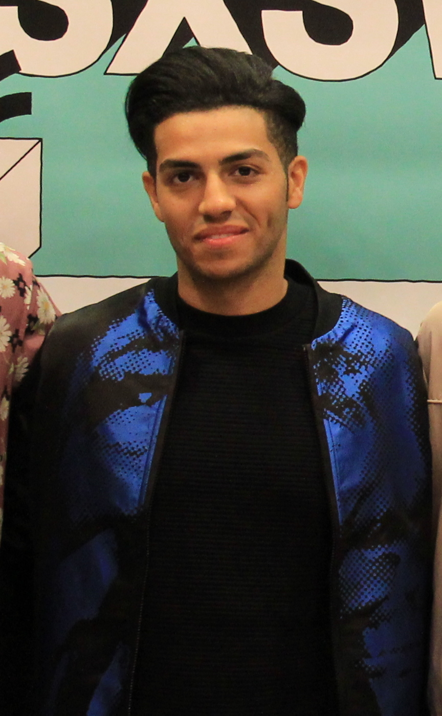 Ben Platt, Nina Dobrev, Mena Massoud, Scott Speedman, Ricky Tollman at SXSW during our round table interviews.